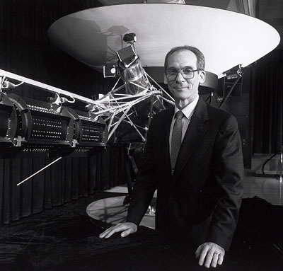 In 1972, Ed Stone became the Voyager Project Scientist. Twenty years later, both Voyager spacecraft were still operating, and this photo was taken in front of a full-scale model of the spacecraft, after Stone had been Director of JPL for about one year.